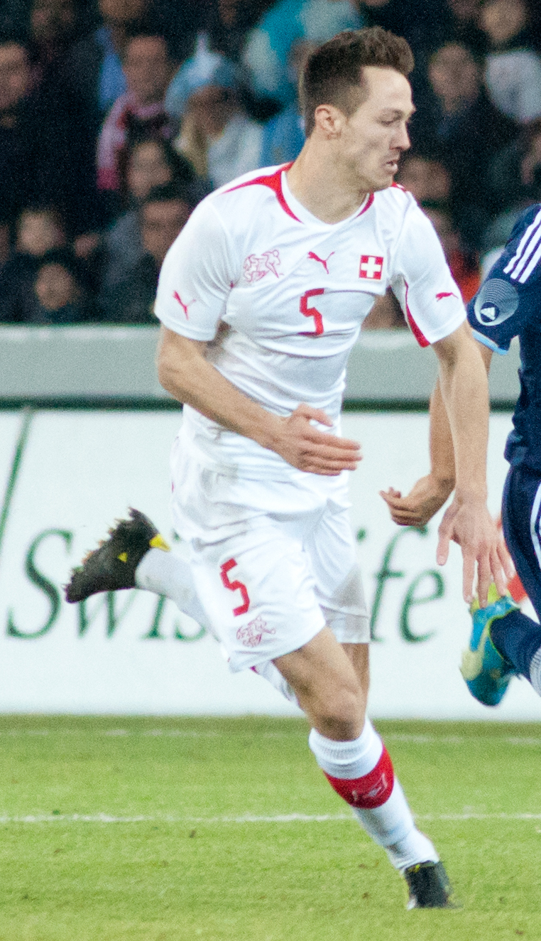 The making of this document was supported by Wikimedia CH. (Submit your project!) For all the files concerned, please see the category Supported by Wikimedia CH. Switzerland vs. Argentina, 29th February 2012